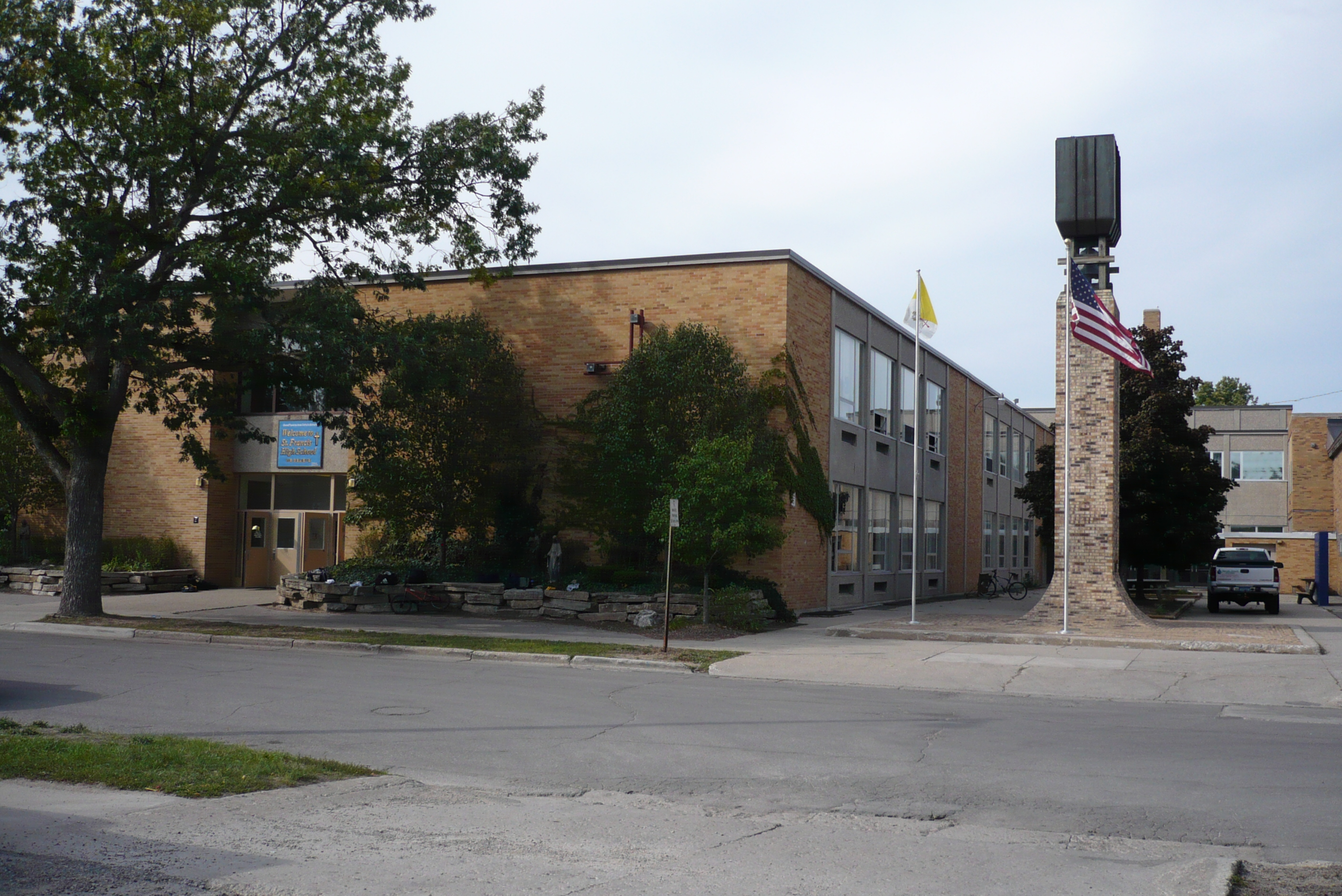 Saint Francis High school